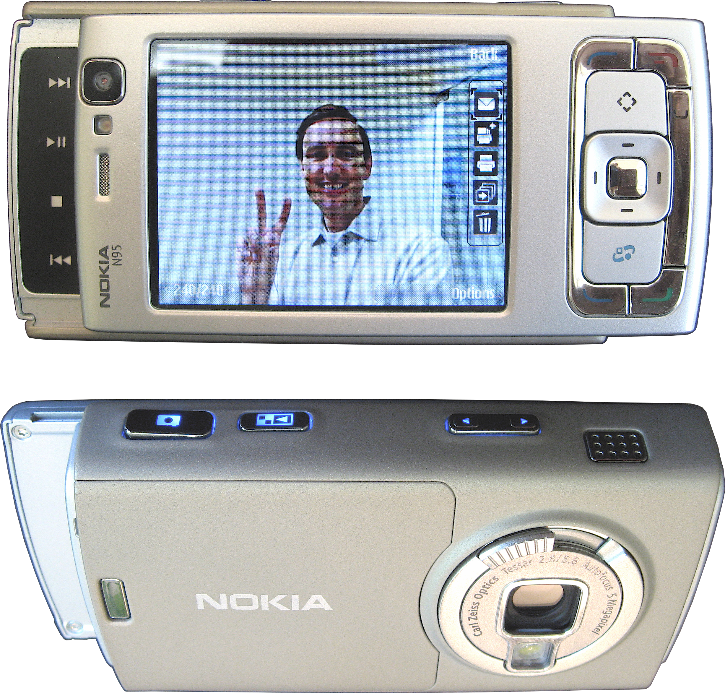 The N95 should be shipping next quarter in the U.S. With a 5MP auto-focus camera, Nokia has a clever solution to the user ergonomics in the different modes of use. There are three different ways to hold the N95 with button placement to match: 1) camera mode. It feels like a normal pocket cam, held horizontally. On the bottom camera image, the slider would actually be pushed in flush, and the blue shutter button is on the top right where you would expect it with a camera. 2) media playback mode: the top camera image shows the slider face that reveals the nav buttons for a side grip 3) telephone use: not shown here. The slider face can slide on its rails off to the left (as well the right) to reveal the dialpad, oriented for a vertical hold of the phone. 2007-2008 should see a flurry of higher quality cameras in phones. In the slim form factors, 3MP with autofocus should lead, and then shutters, zoom and image stabilization will follow.